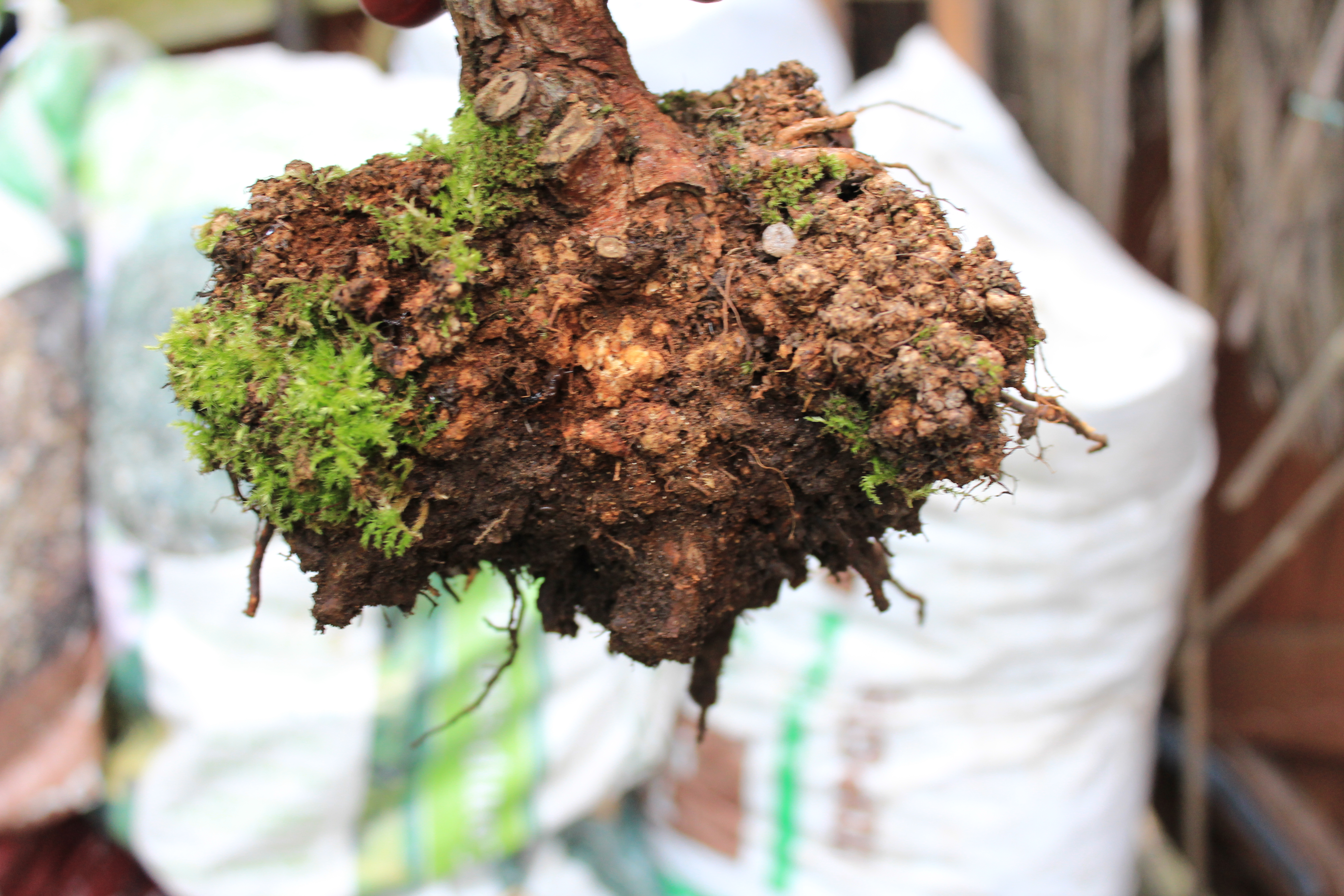 Crown gall (Agrobacterium tumefaciens) on a cultivated rose (Rosa). The roots have been severed beneath the galled area.